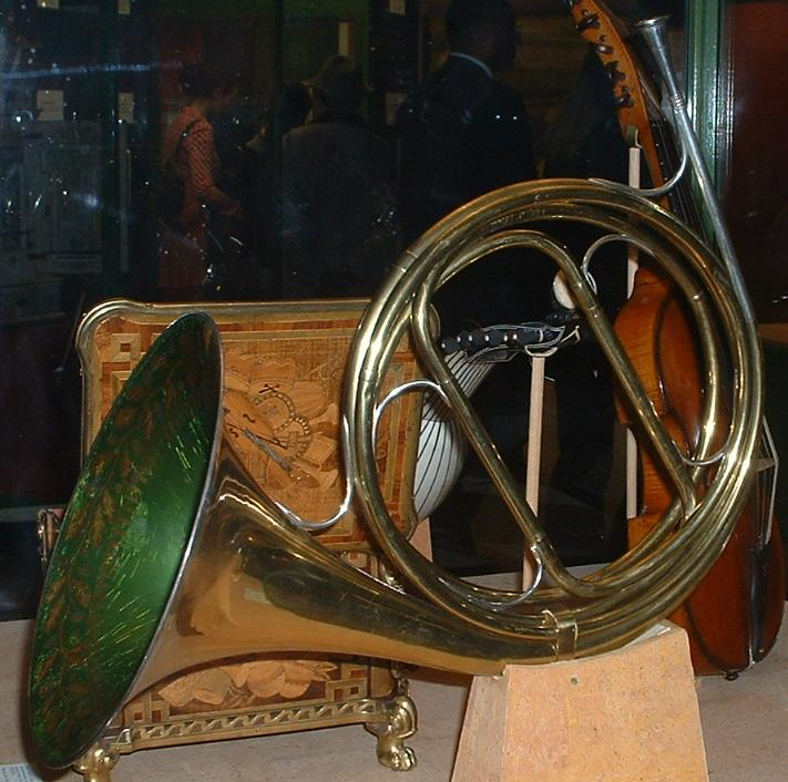 Natural horn, French, by Marcel-Auguste Raoux, Paris, about 1826, inscribed Raoux, brevet, seul Fournisseur du Roi, Rue Serpente Paris. Brass and silver mounts, inside of the bell painted in green and gilt lacquer. The instrument is fitted with a series of changeable medial crooks within the outer coil, so that it could be played in a number of different keys. Photographed at the V&A museum, London, 02-Jan-06.